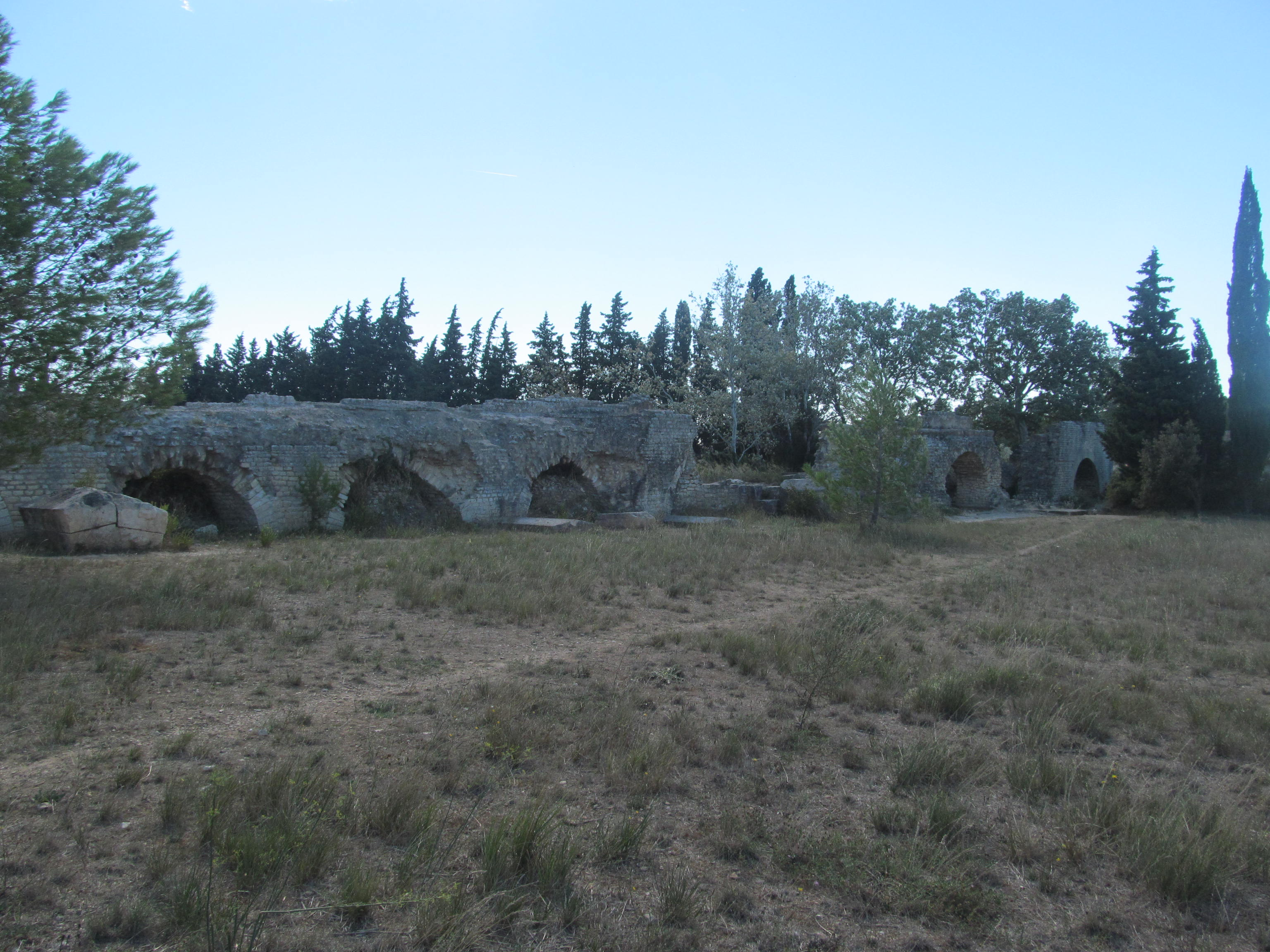 Roman Aqueduct near Fontvieille in Provence